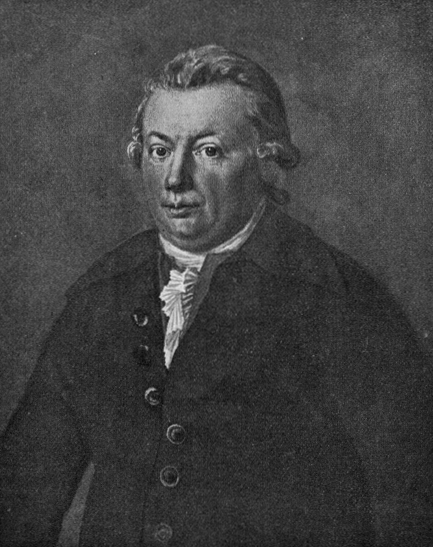 Johann Sebastian von Clais (1742–1809), German-Swiss watchmaker, inventor, entrepreneur, director of mines ...